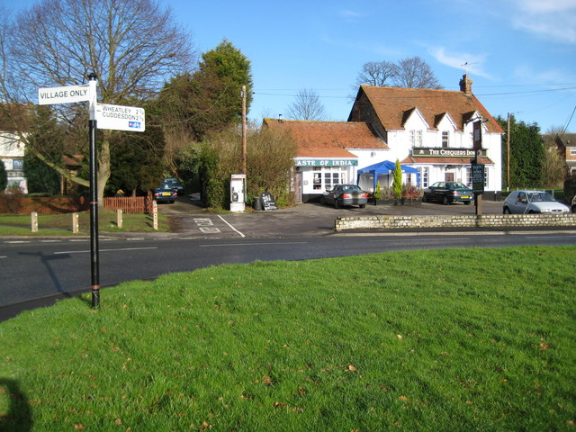 Horspath, Oxfordshire: The Chequers Inn The Chequers Inn is located on The Green, with the attached Taste of India restaurant.